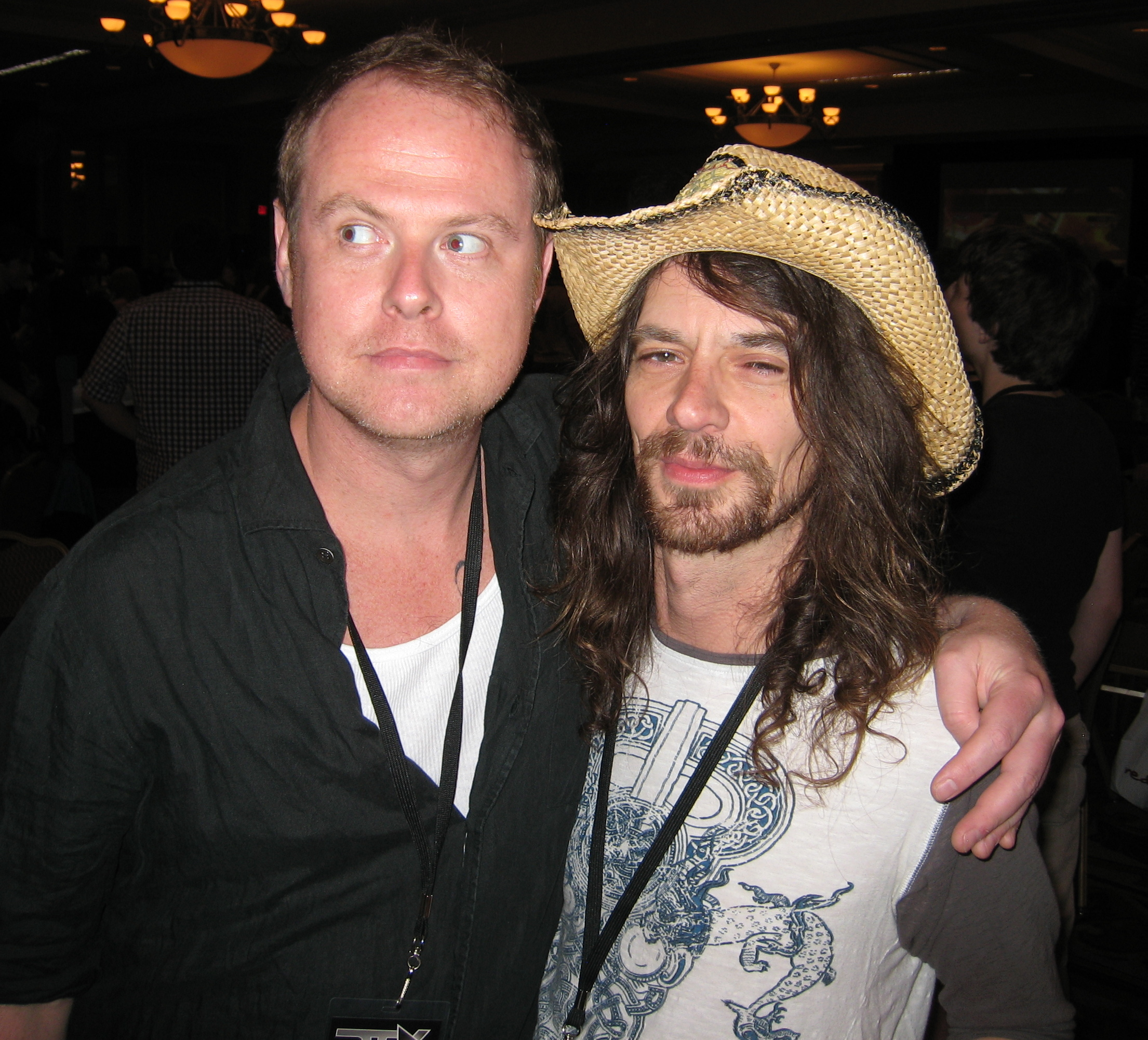 Nico Audy-Rowland and Jeff Williams, RoosterTeeth Music